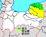 Location Map of Shimoniikawa District in Toyama Prefecture, Japan